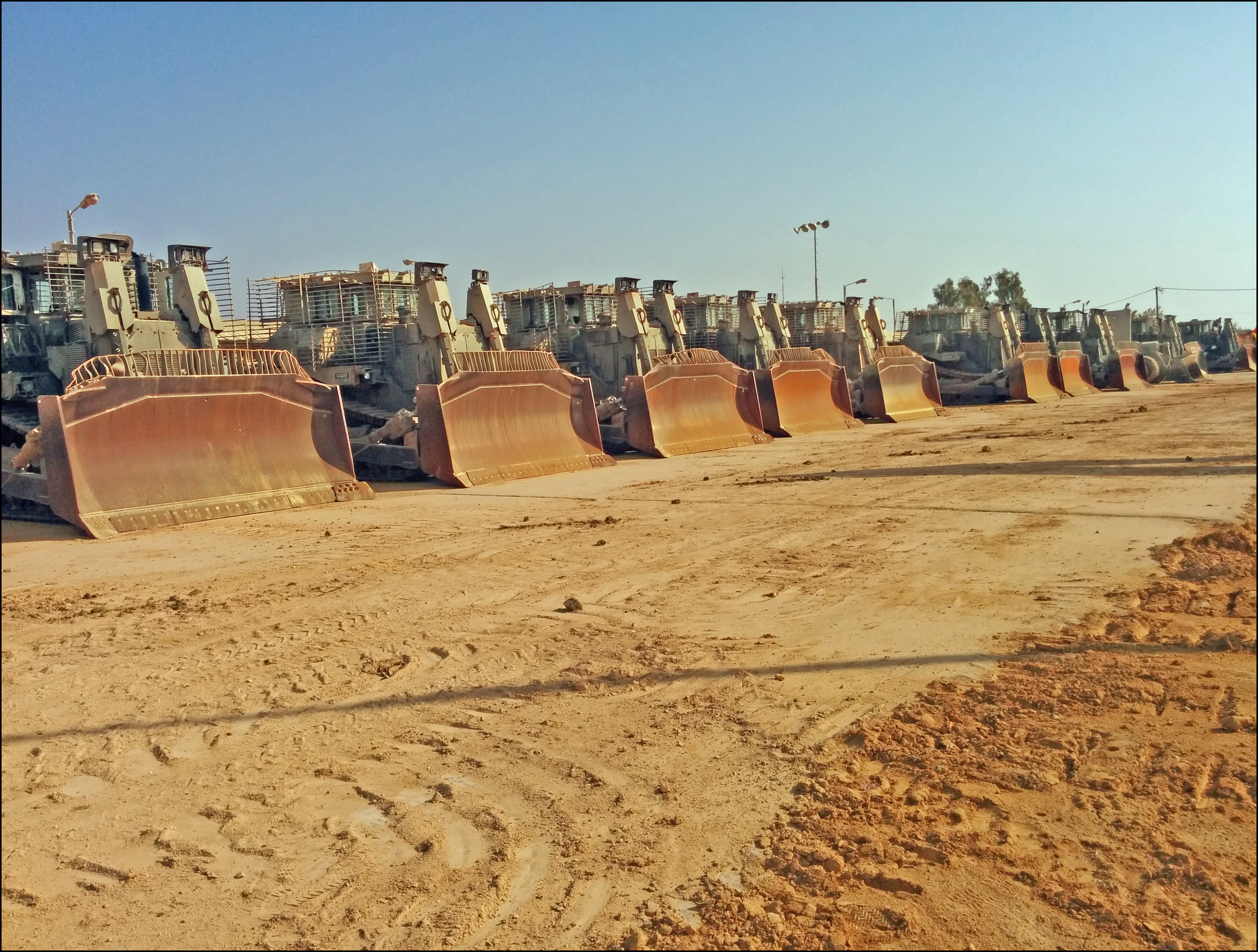 IDF Caterpillar D9 armored bulldozers